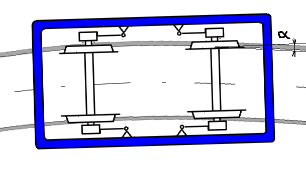 Bogie with rigid axle guidance. α - angle of attack. Direction of movement: from left to right. Lateral suspension is not mentioned. Picture based on See also File:Heumanns method for 2axle bogie.png and File:Heumanns method and bogie in curve.png Česky: Podvozek s pevně vedenými dvojkolími. α - úhel náběhu, směr jízdy doprava. Příčné vypružení není znázorněno.